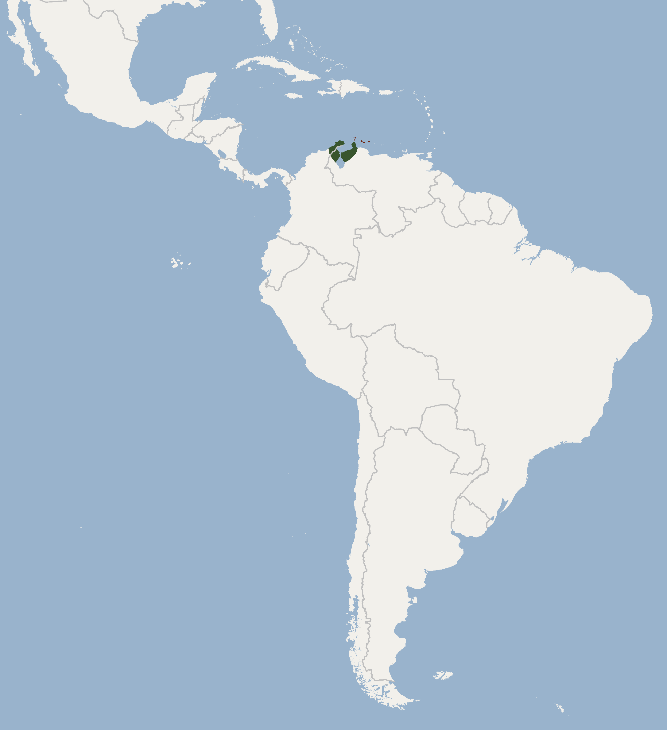 according to Gardner, 2008